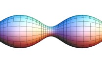 This is an unduloid